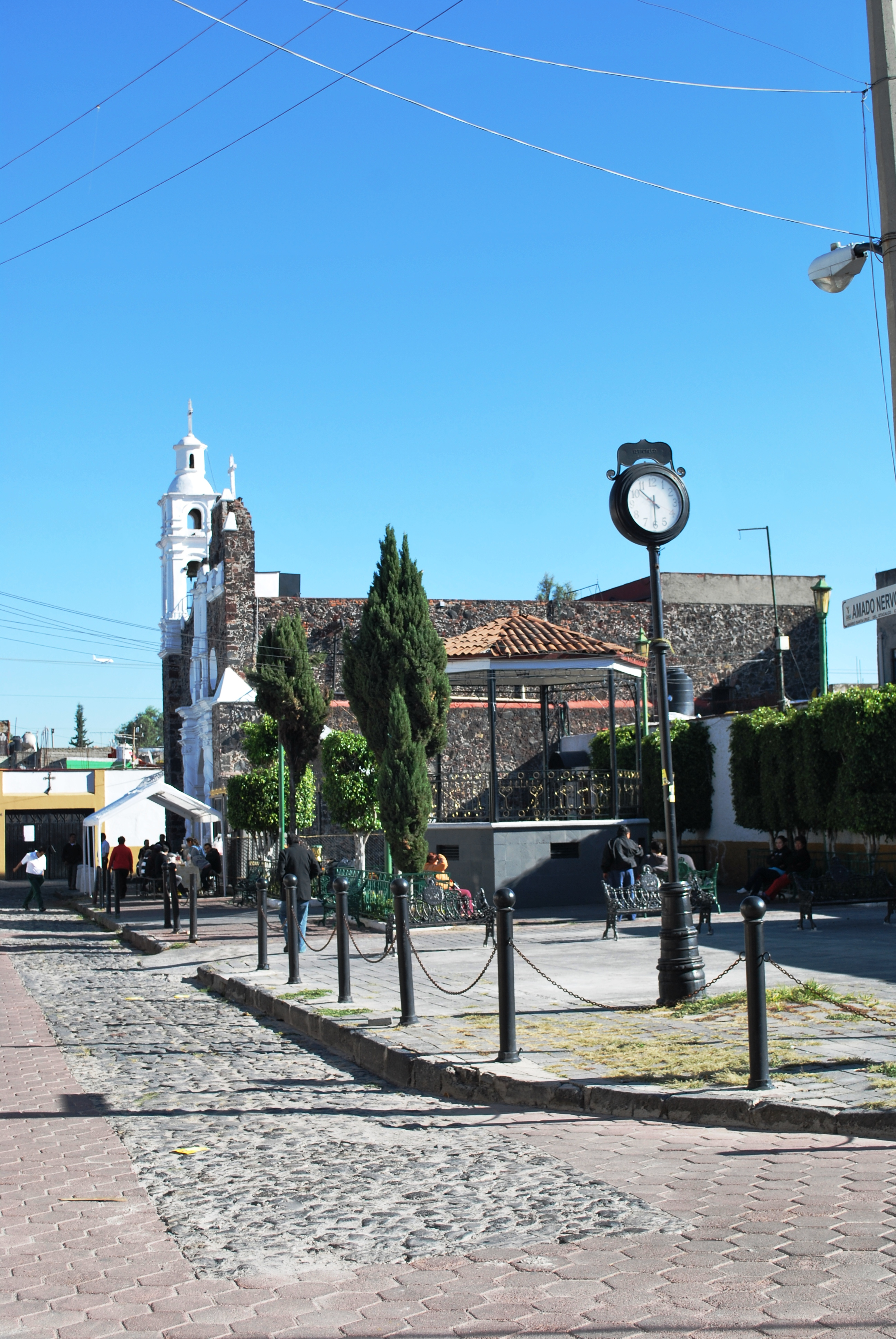 Plaza in the Santa Cruz neighborhood of Iztacalco, Mexico City